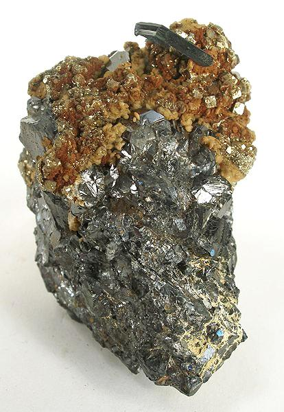 Vivianite, Siderite, Pyrite, Sphalerite Locality: Stari Trg Mine, Trepča complex, Trepča valley, Kosovska Mitrovica, Kosovo (Locality at ) Size: 5.9 x 3.9 x 3.3 cm. A gemmy, 1.2 cm, pretty blue vivianite blade is perched on lustrous, jet-black sphalerite crystals nicely accented with yellow-brown siderite disks and sparkly, brassy pyrite microcrystals on this fine combination specimen from the famous and ancient Stari Trg Mine of Kosovo. Vivianite is an uncommon and seldom available species from this historic mine. Ex. Saller Collection.